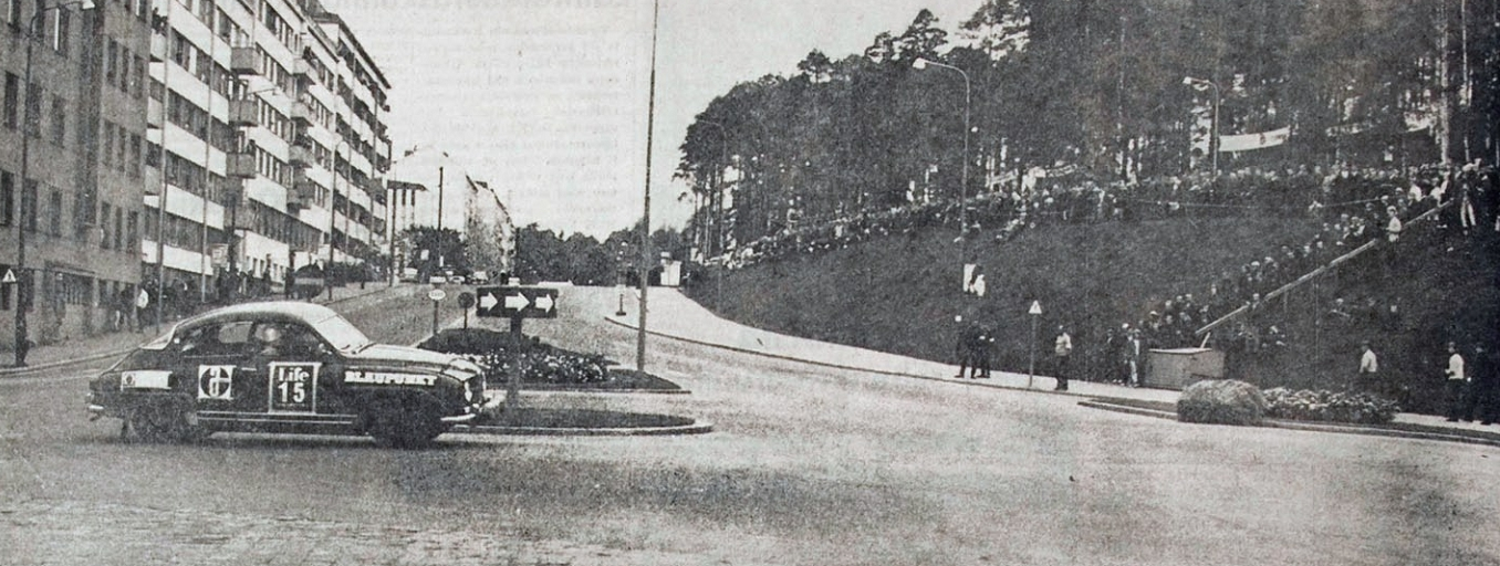 Ove Andersson drives his Saab Sport at the 1965 1000 Lakes Rally (Rally Finland).